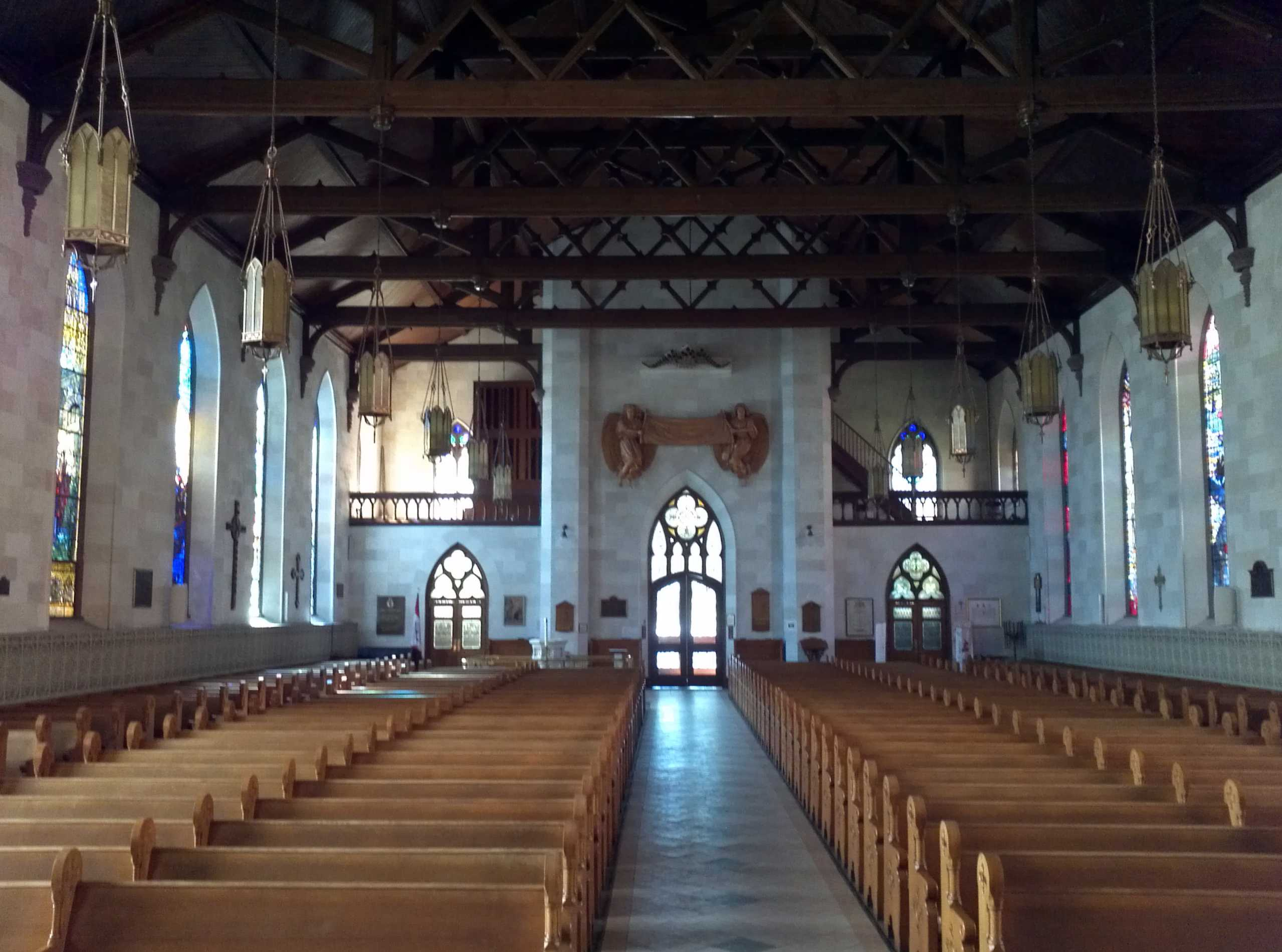 Looking west towards the Narthex. The carved wooden Easter Angels are installed above the west doors and immediately above the Angels is the Trumpet-en-chamade.